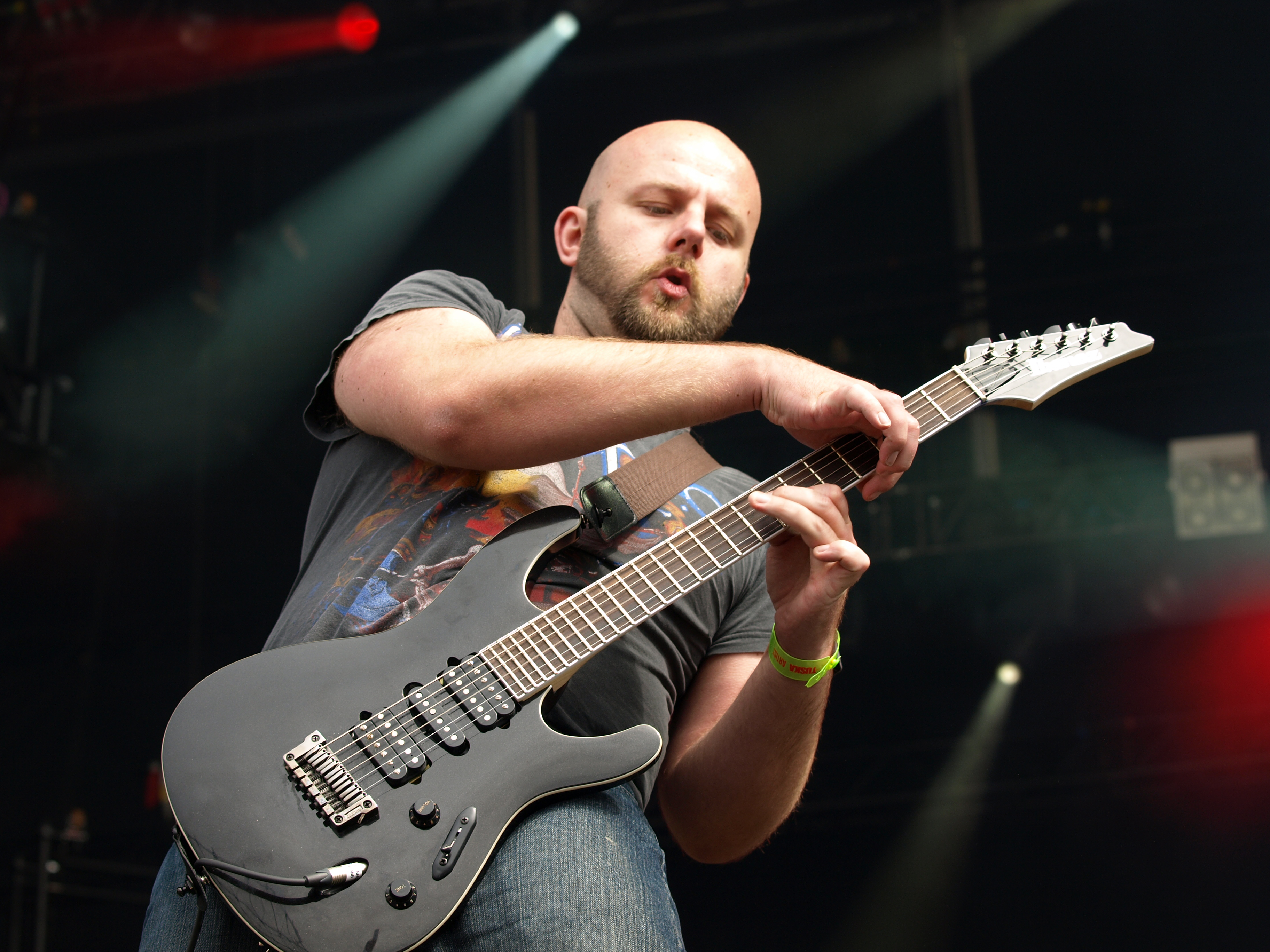 Swedish metal band Soilwork live at Tuska Open Air 2013